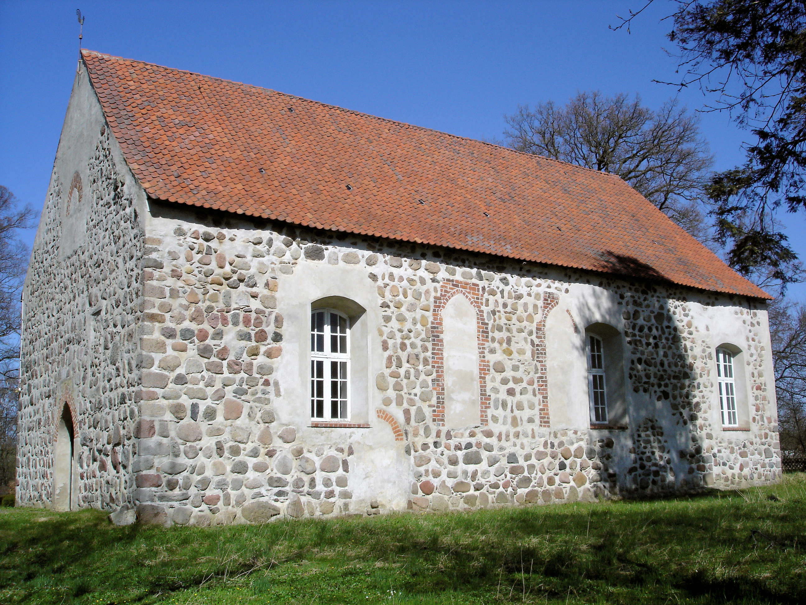 Church Leplow, Mecklenburg-Vorpommern, Germany